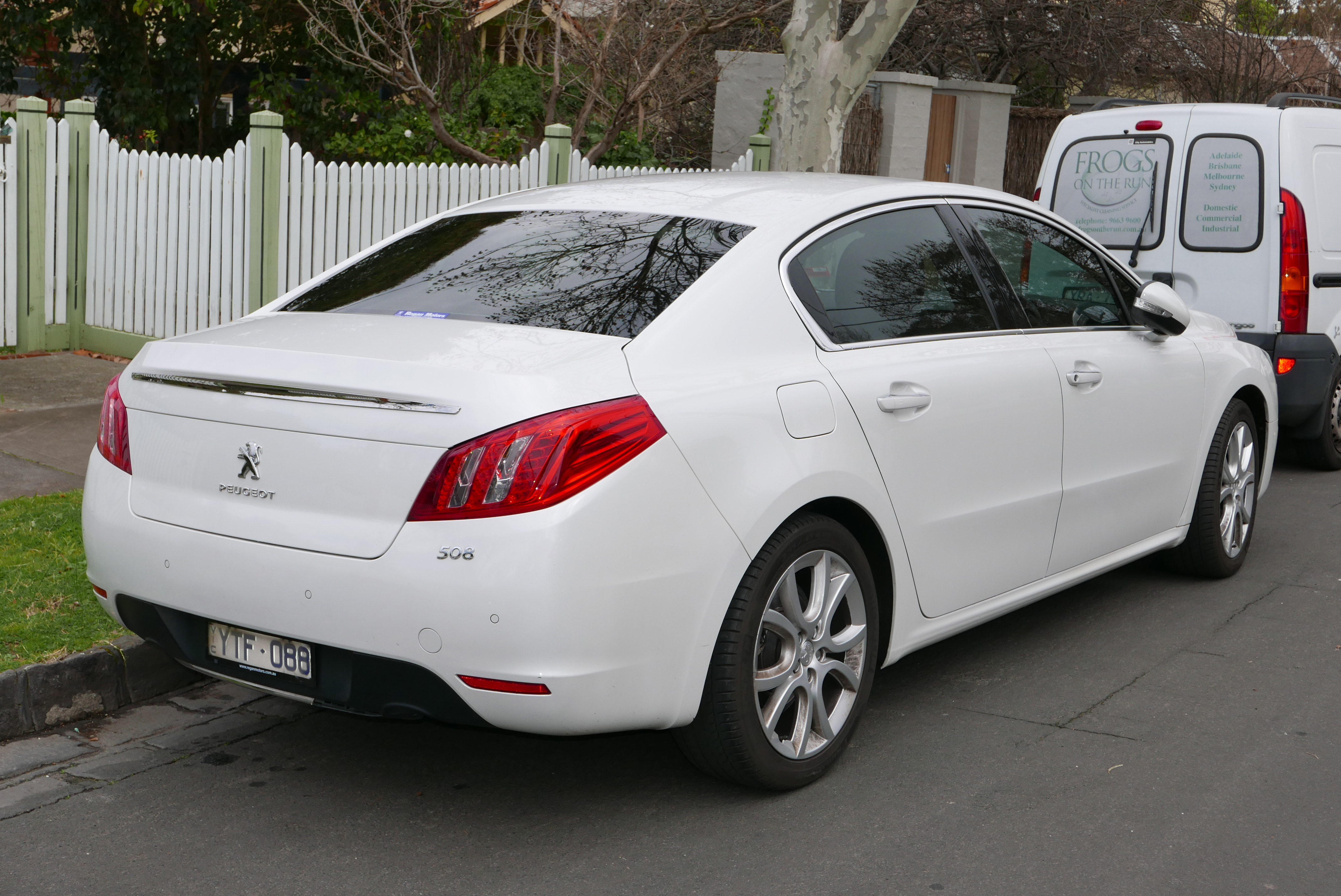 2011 Peugeot 508 Allure HDi sedan. Photographed in Hawthorn, Victoria, Australia. Vehicle registration enquiry results Jurisdiction Victoria Registration YTF088 Chassis code VF38DRHHABL087447 Engine code 10DYYG4035439 Compliance date 2011-12 Year of manufacture 2011